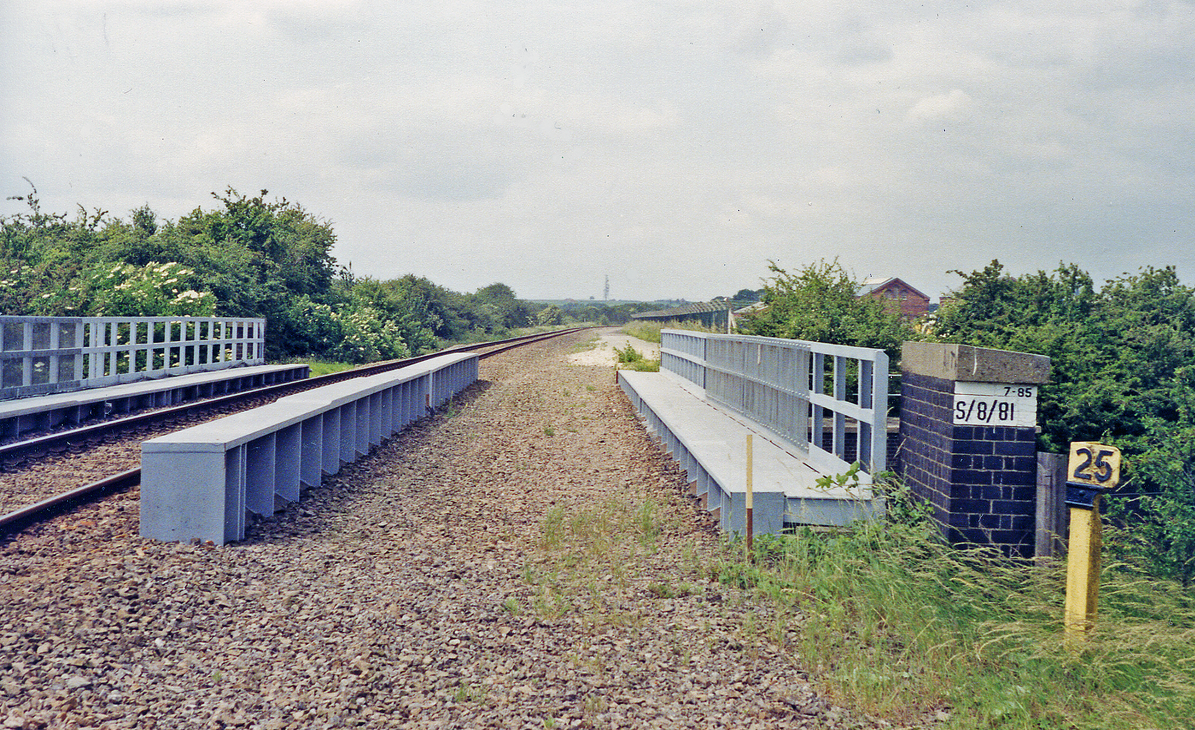 Site of Dukeries Junction (High Level) station, 1992 View westward, towards Shirebrook/Langwith and Chesterfield: ex-GCR (Lancashire, Derbyshire & East Coast line), Chesterfield - Shirebrook North - Lincoln. This station was never a Junction, but was a little-used dual (High Level/Low Level) interchange station between the LD&EC and the East Coast Main Line (ex-Great Northern) below. Hardly any trains on either line ever stopped here and the station(s) were closed 6/3/50. The LD&ECR was closed Chesterfield - Shirebrook North to passengers 1/12/51, to goods 4/3/57: Shirebrook North - Lincoln to passengers 19/9/55, to goods 30/3/64, but remained open until 2003 from Shirebrook/Langwith Junction for merry-go-round coal trains for High Marnham Power Station near Clifton-on-Trent. From 10/7/09 this stretch, between Thoresby Colliery Junction and High Marnham, has been restored as the High Marnham Test Track.